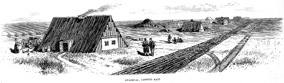 1875 іllustration of a Russian Mennonite "saraj" or burdei - a type of half-dugout shelter in the village of Gnadenau, Kansas. From Frank Leslie's Illustrated Newspaper, March 20, 1875.